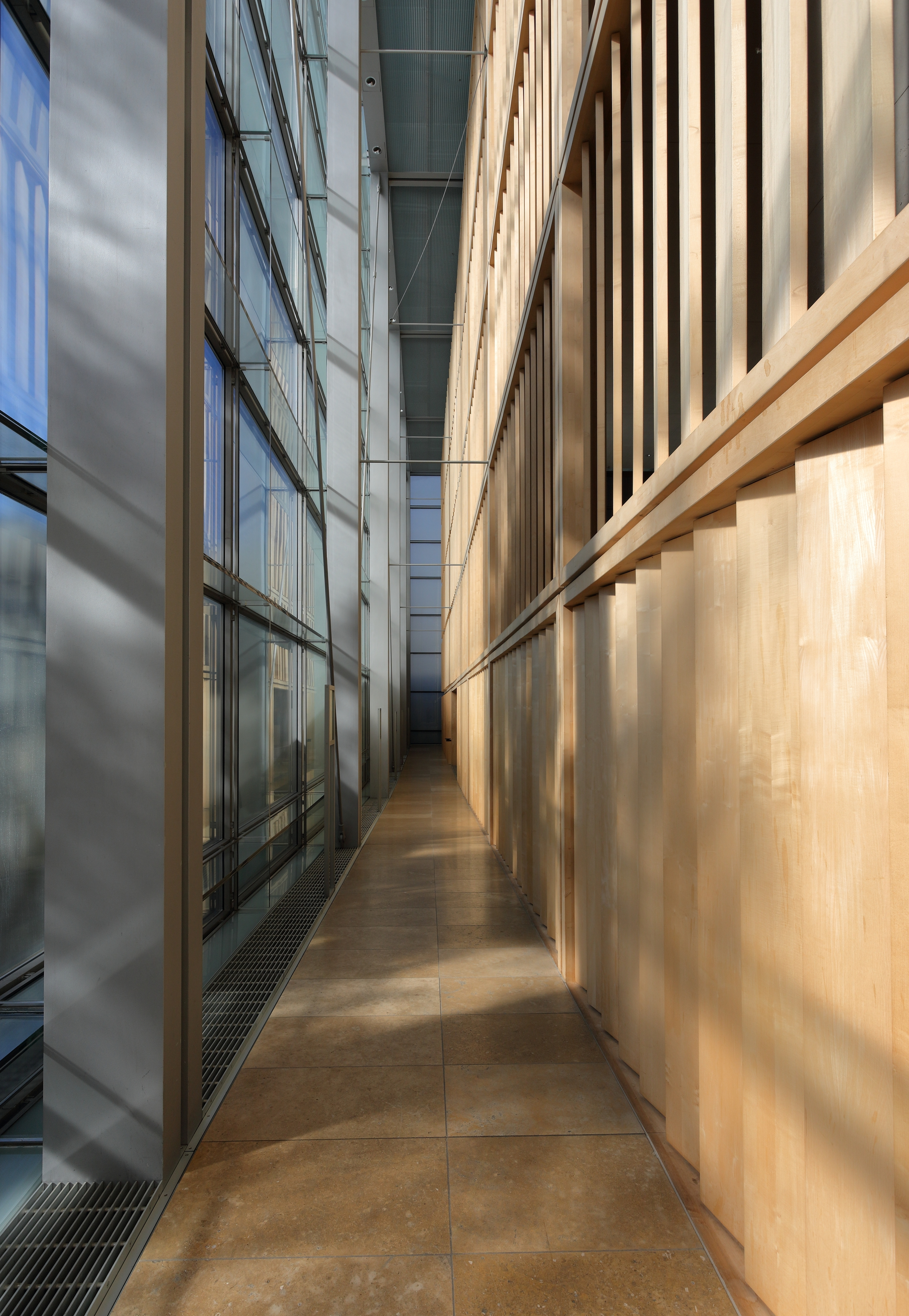 Sacred Heart Church, Munich, interior